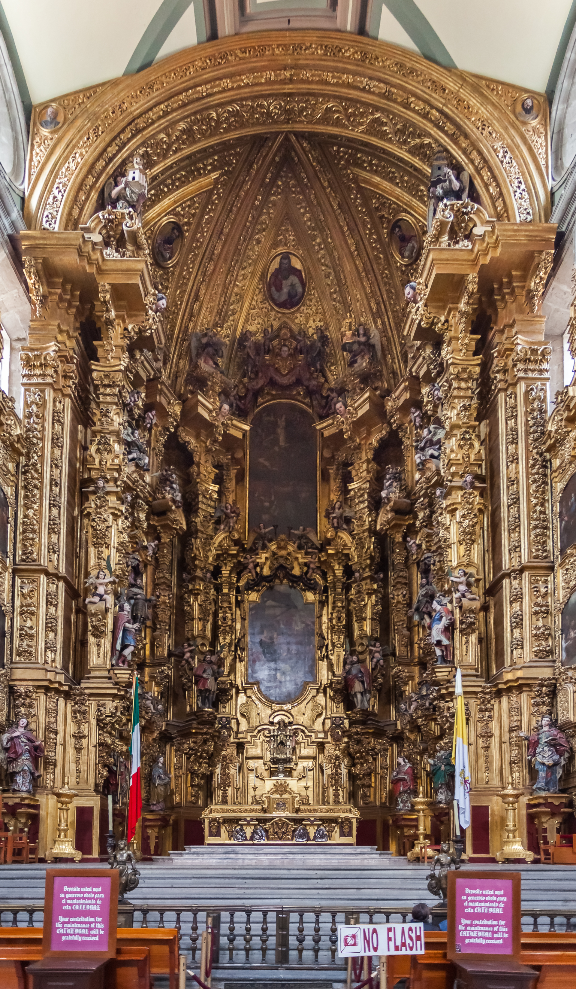 Metropolitan Cathedral, Mexico City, México